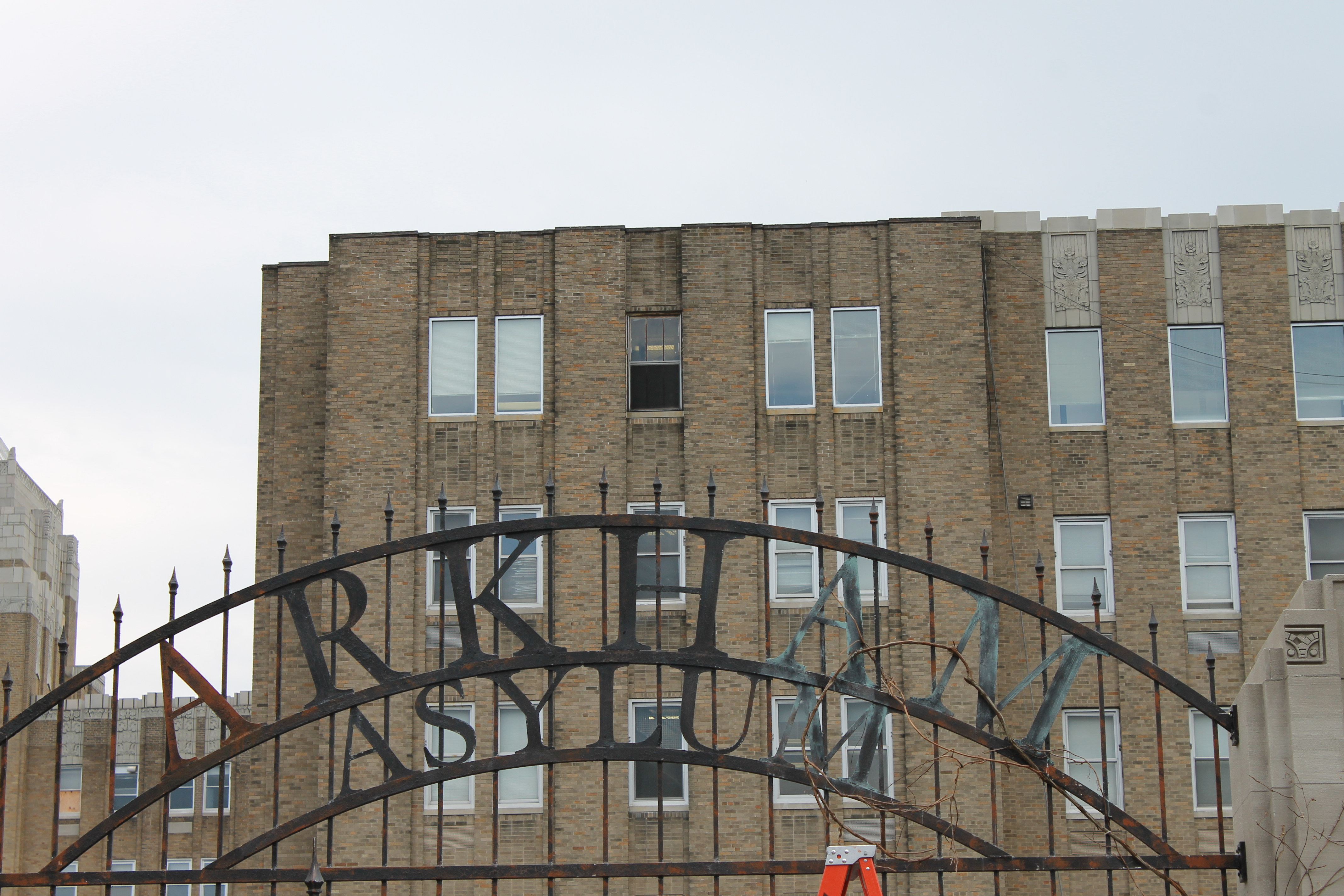 A close-up of the "Arkham Asylum" faux gate, erected on the grounds of Bayley Seton Hospital's rear parking lot (the hospital is located in the Clifton section of Staten Island). The gate was erected by location crews working on the "Gotham" television series.